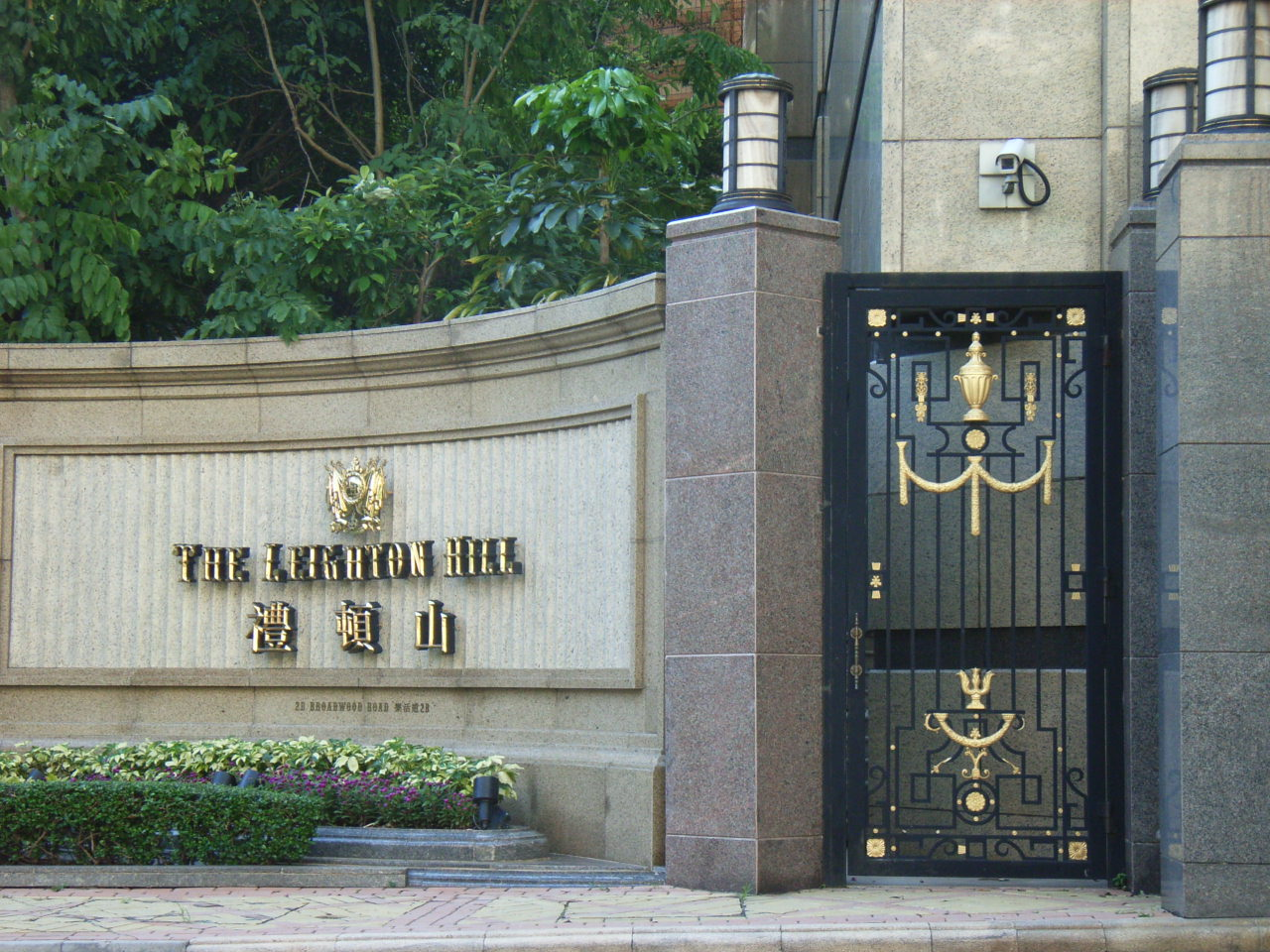 禮頓山, The Leighton Hill, 2B Broadwood Road, Happy Valley, Hong Kong Author: BEVERLYSHEN